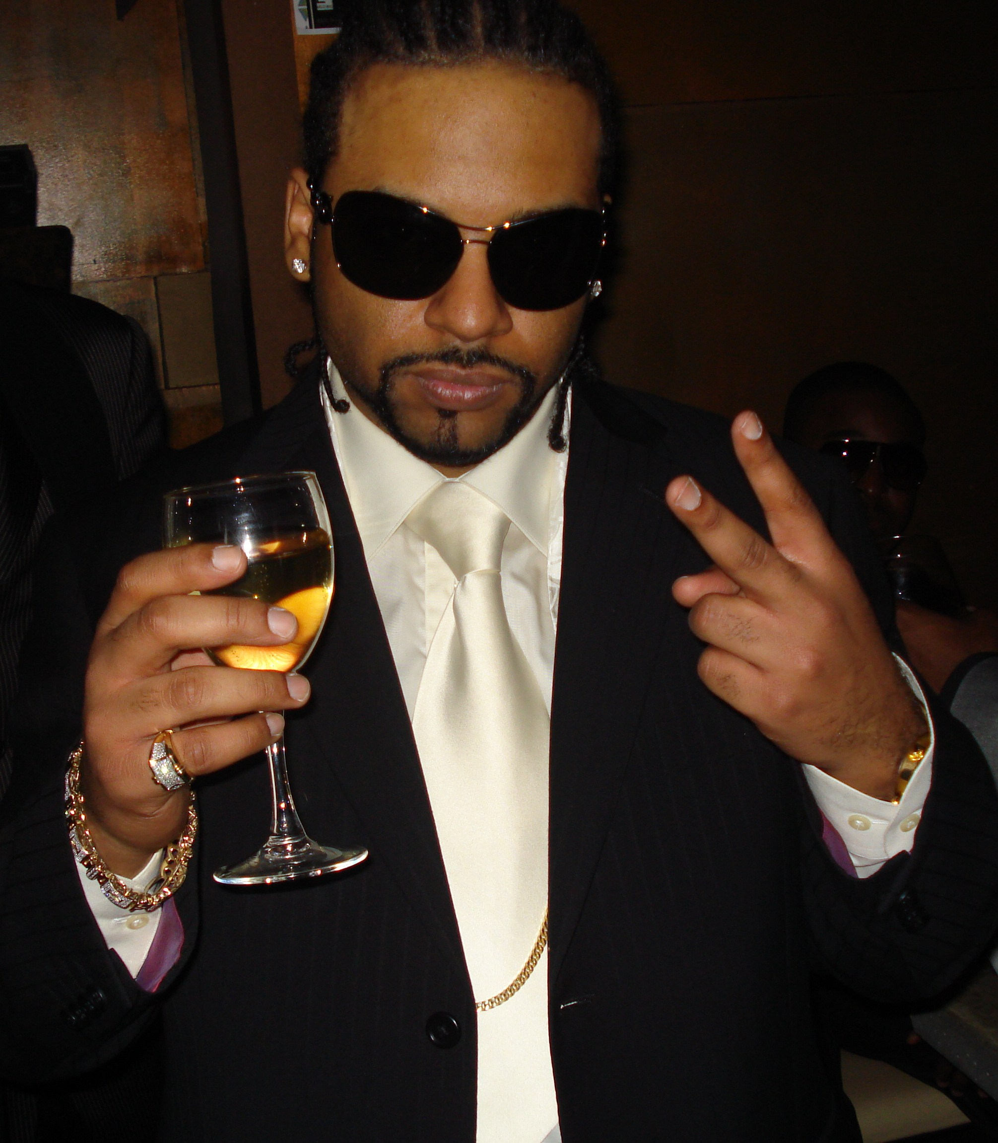 picture of Imposs